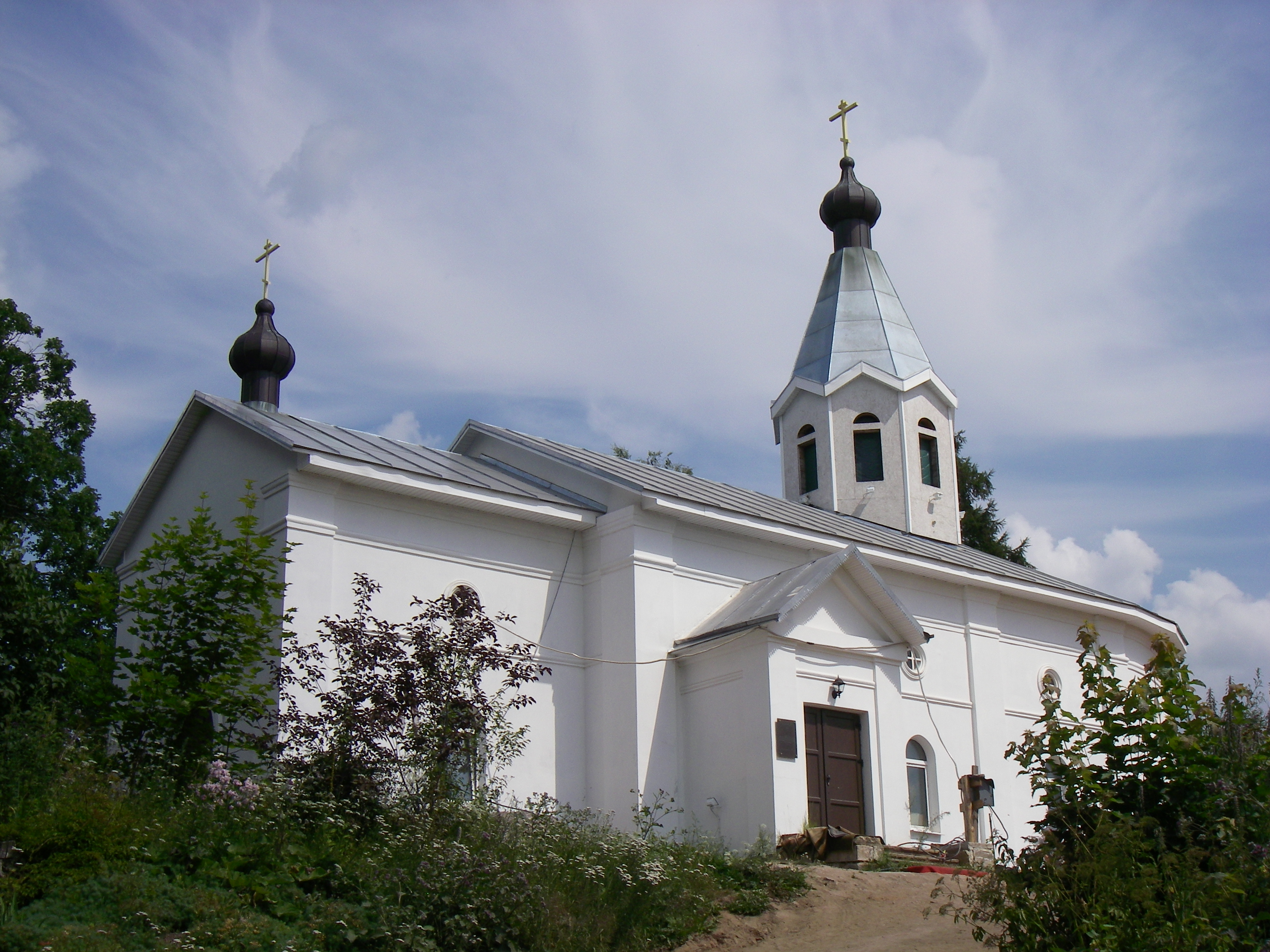 Transfiguration church in Cheremenetskiy monastery